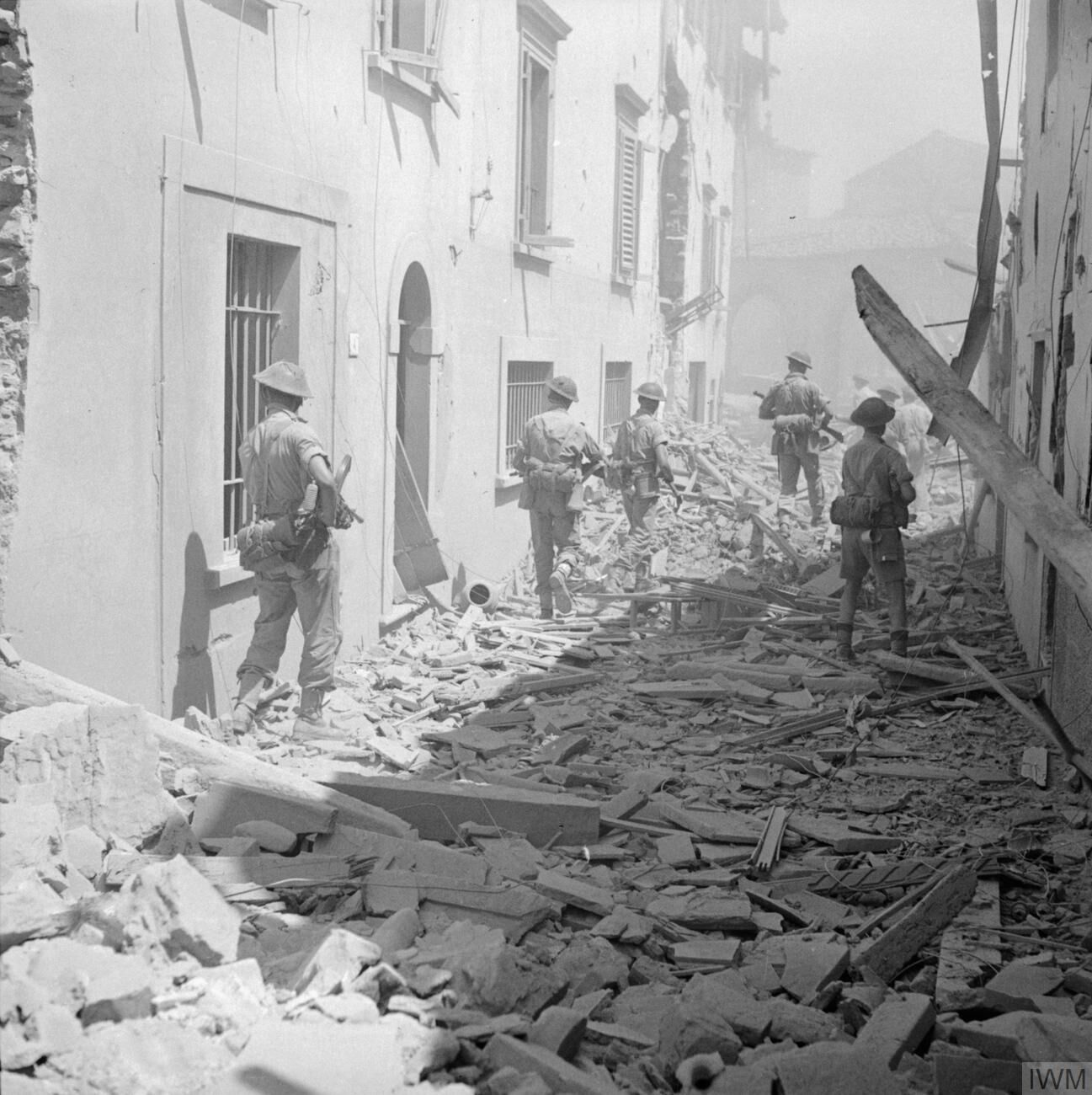 The British Army in Italy 1944 Infantry moving cautiously through the ruined streets of Imprunetta, 3 August 1944.